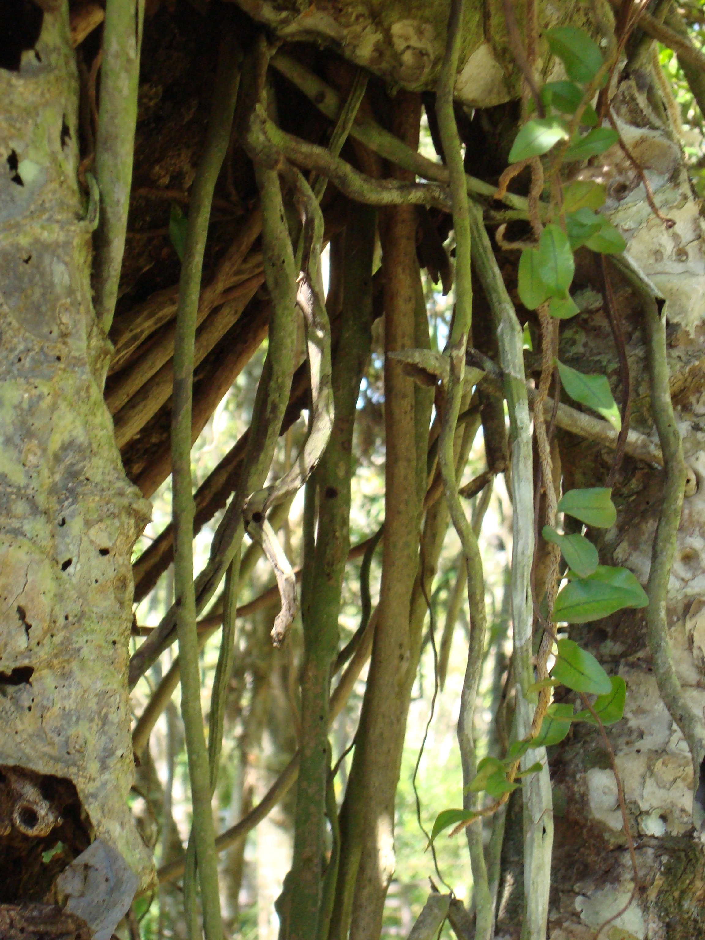 Roots of the guembe plant.